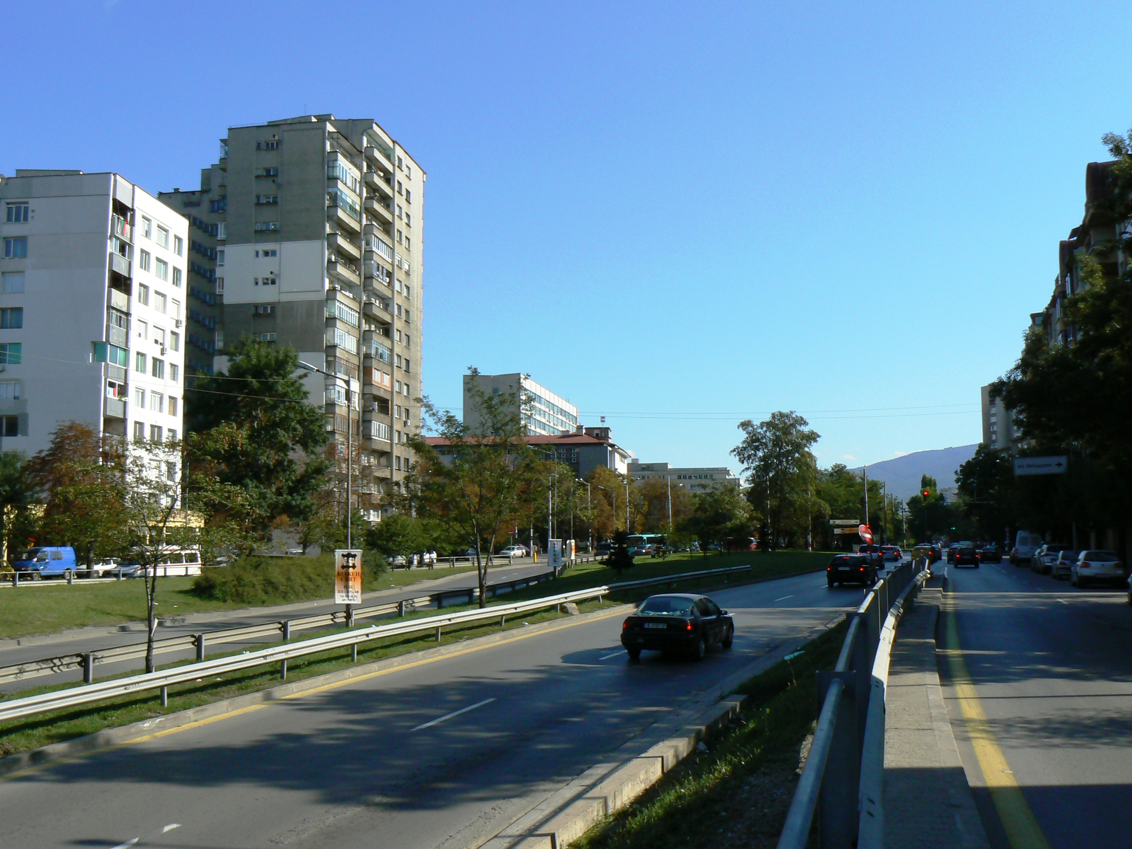 Boul. "Acad. Ivan Evstratiev Geshov", Sofia, Bulgaria